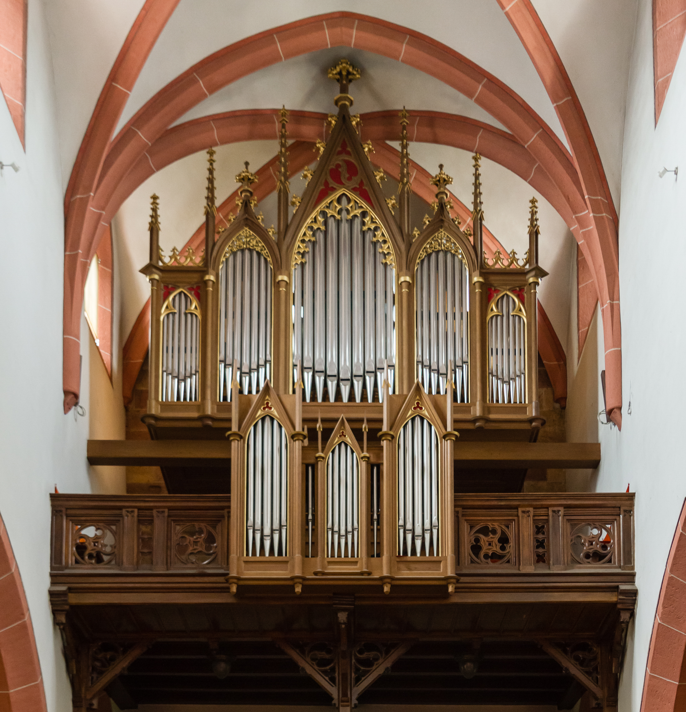 This is a photograph of an architectural monument.It is on the list of cultural monuments of Deidesheim Designation: Catholic parish church of St. Ulrich Construction time: 1444 Description: Late gothic three-aisled basilica, quarry stone. Choir designated 1473 (completion?), nave designated 1444 and 1461, tower designated 1464, baroque spire 1728, stair turret 16th century, gothic sacristy, former Ölberg-chapel, around 1480. On the exterior tomb slabs of the 16th to the 18th century. Townscape formative Former ossuary, quarry stone with hipped roof, late 15th century. Cemetery Cross, after 1554. Place: Municipality Deidesheim, Collective municipality Deidesheim, District Bad Dürkheim, Rhineland-Palatinate, Germany Location: Kirchgasse House number: 1